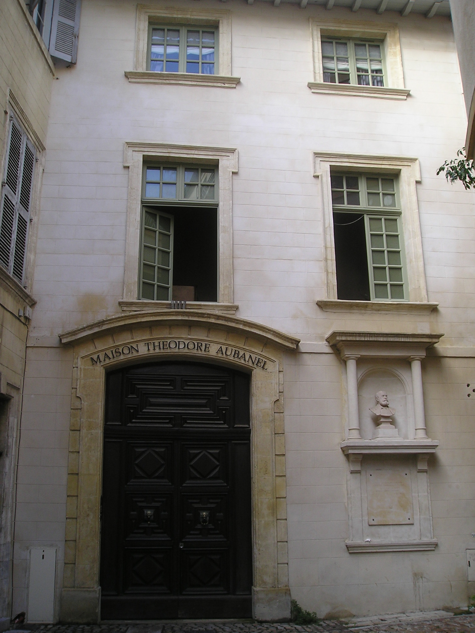 Front of maison aubanel, previously museum aubanel in avignon